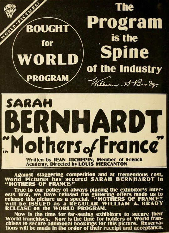 Advertisement in Moving Picture World, Apr, 1917 for the film Mères françaises (1917) (English title: Mothers of France).